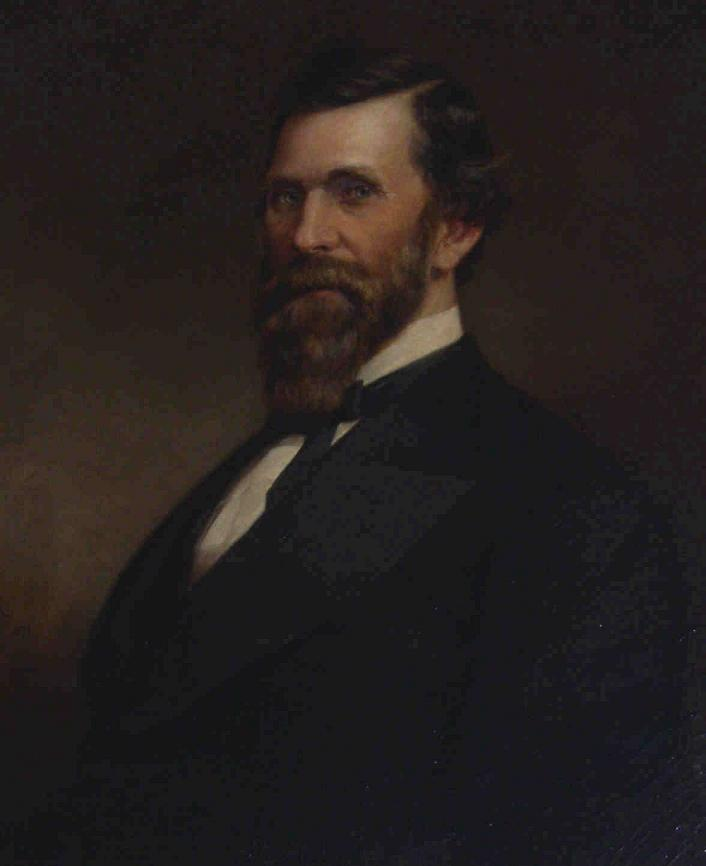 Official portrait of NH Gov. Person Cheney.